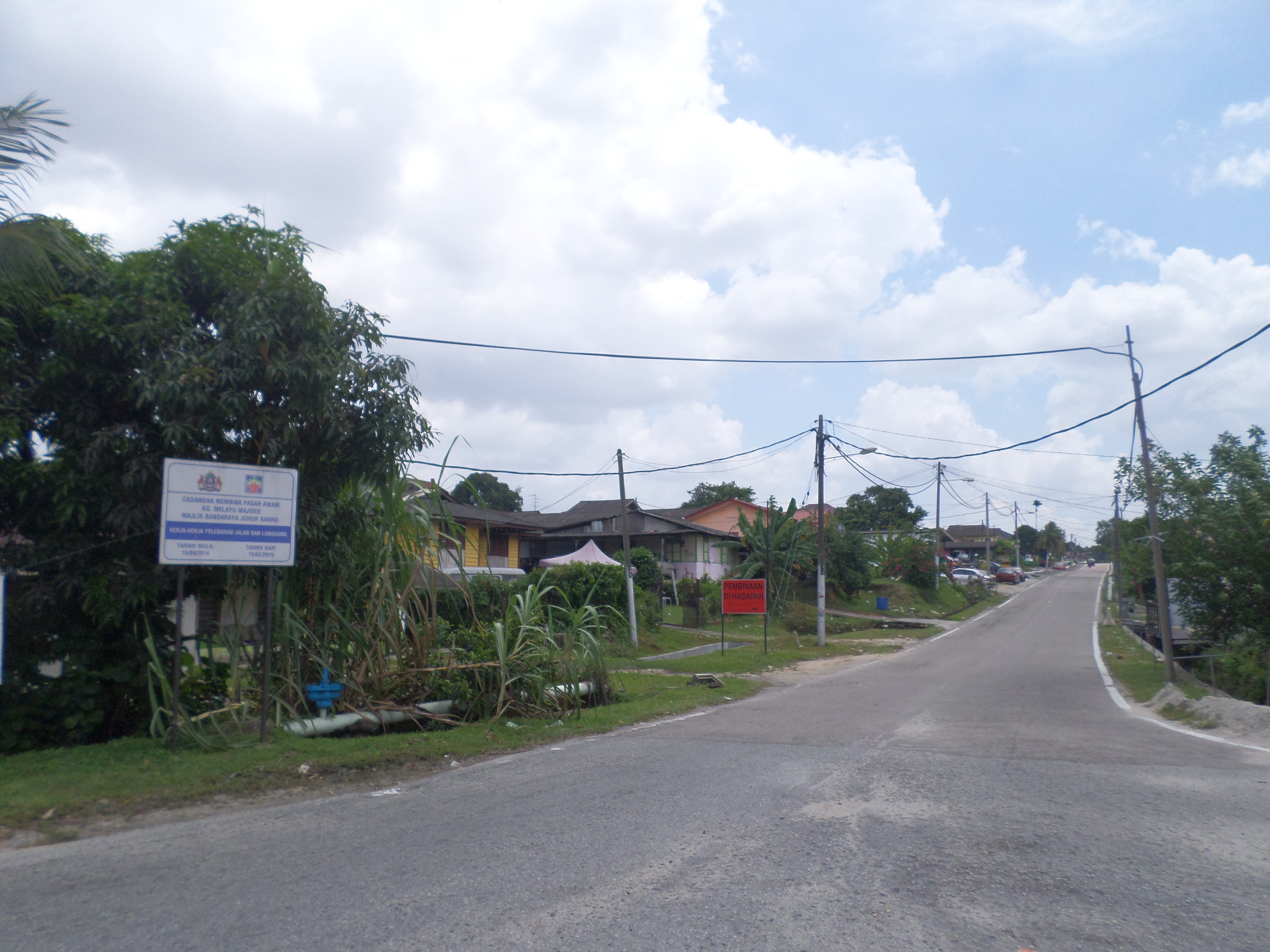 Majidee Malay Village, Johor Bahru, Johor, Malaysia